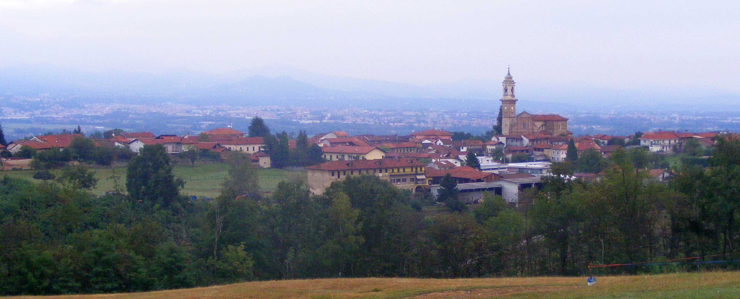 Zubiena (BI, Italy): panorama